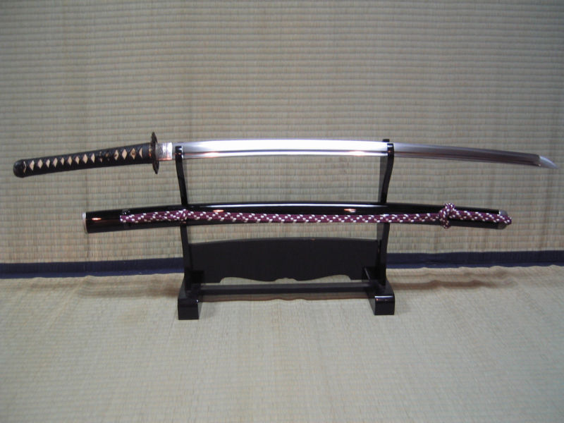 by renfield